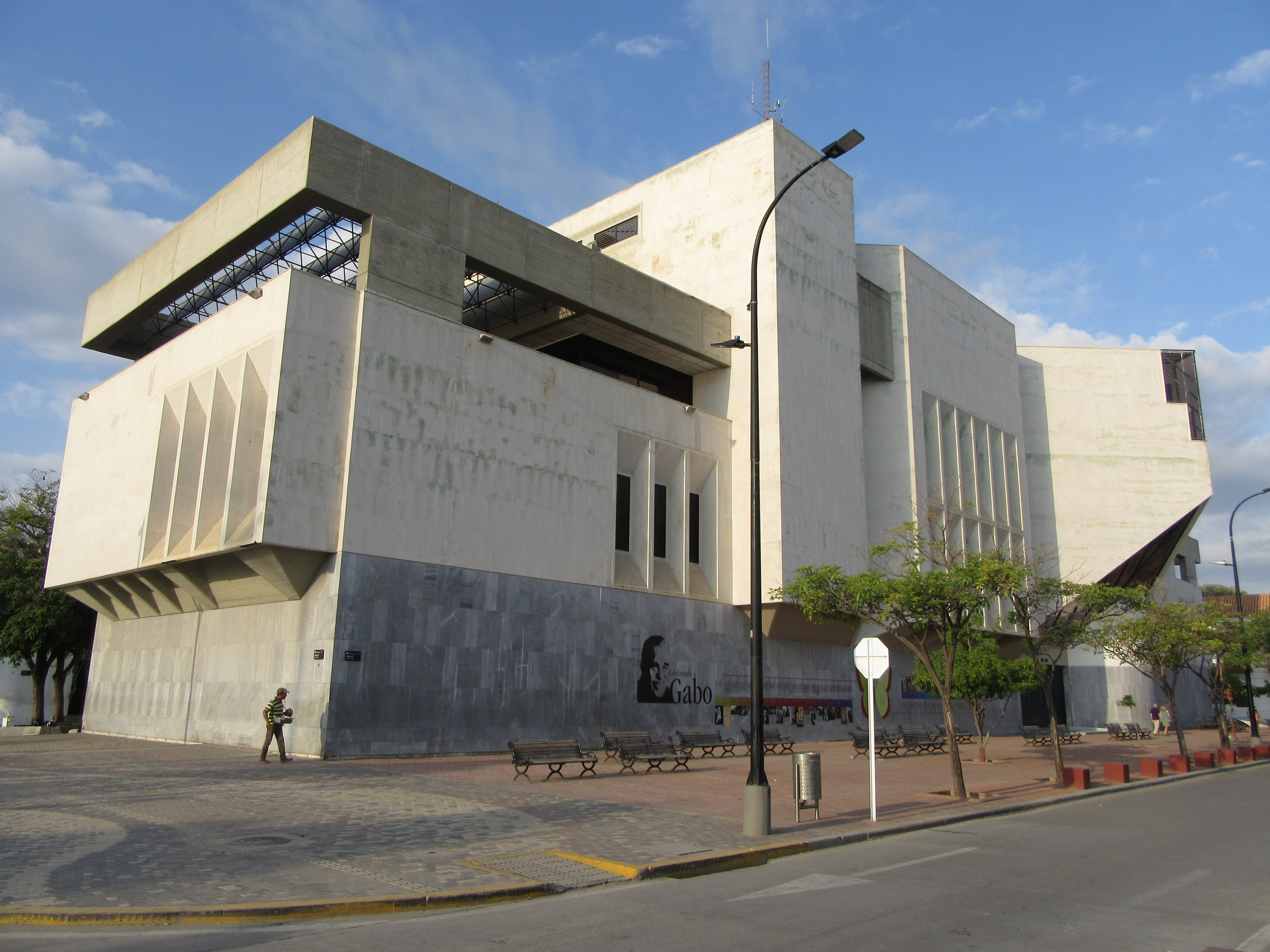 Santa Marta